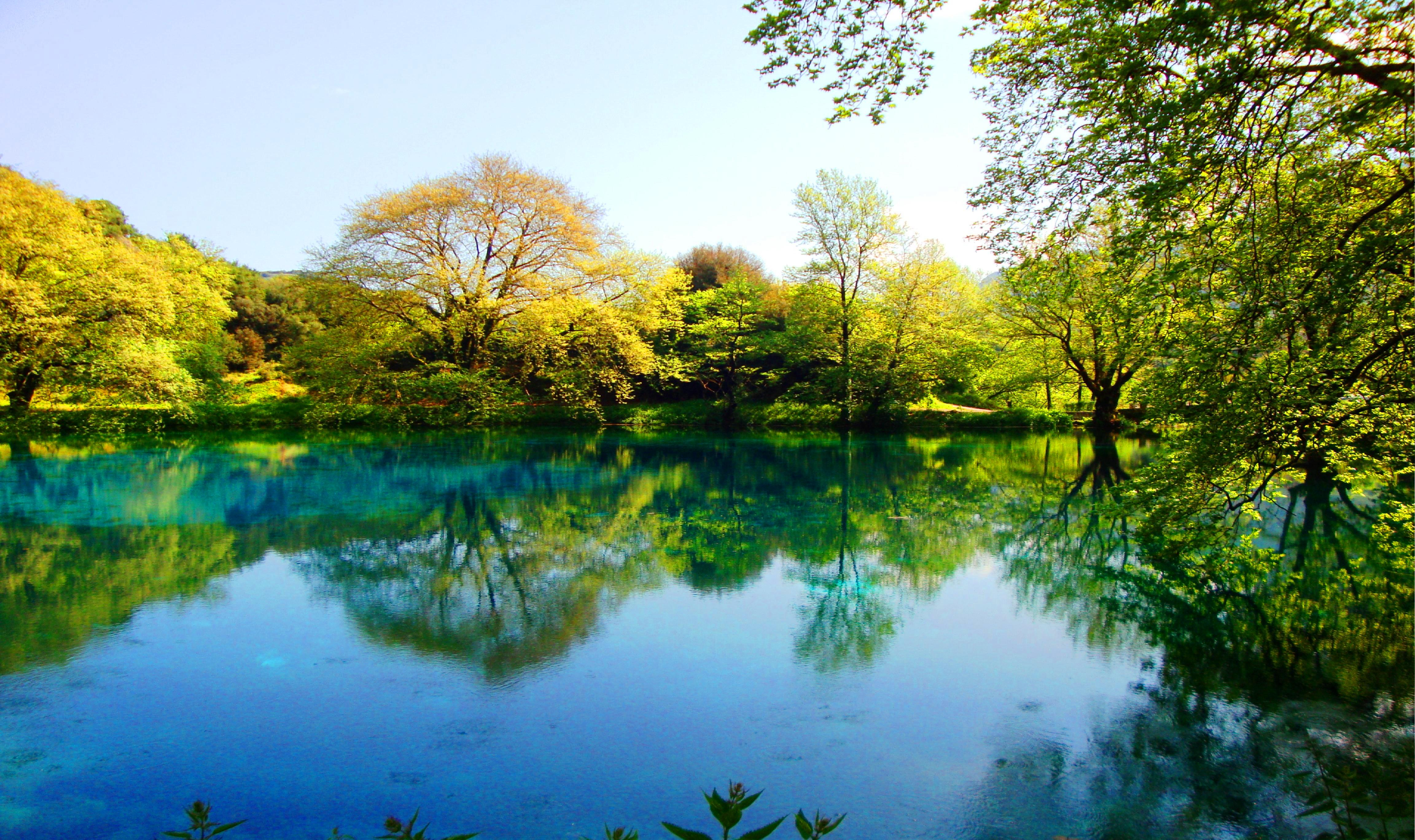 This is a photography of Natura 2000 protected area with ID GR2110001